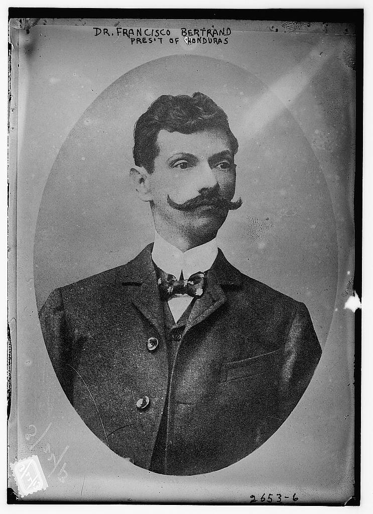 Francisco Bertrand (1866–1926) was twice President of Honduras, first from March 28, 1911 to February 1, 1912, and then again between March 21, 1913 and September 9, 1919.